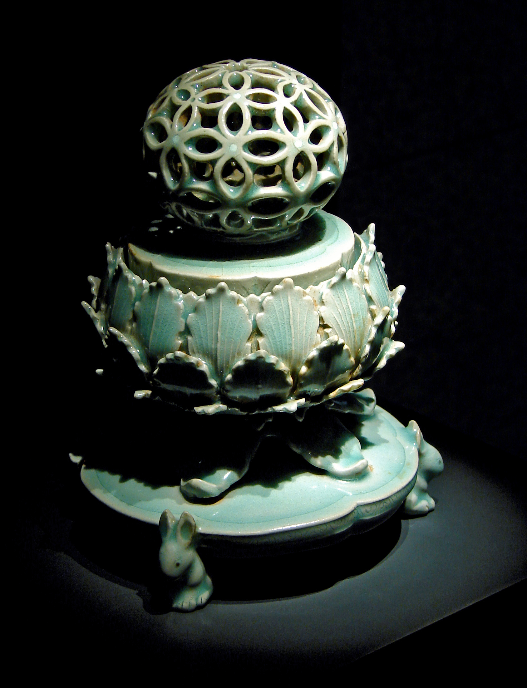 Celadon Incense Burner from the Korean Goryeo Dynasty (918-1392), with kingfisher glaze, is the National Treasure of South Korea #95 and is currently on display at the National Museum of Korea in Seoul.